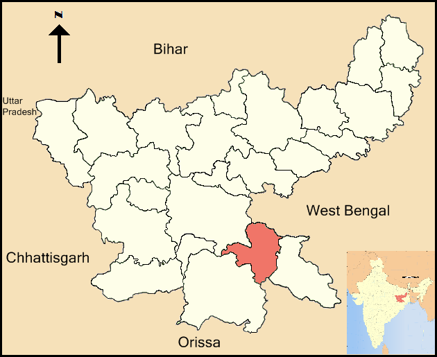 A locator map of Seraikela Kharsawan district, Jharkhand, India